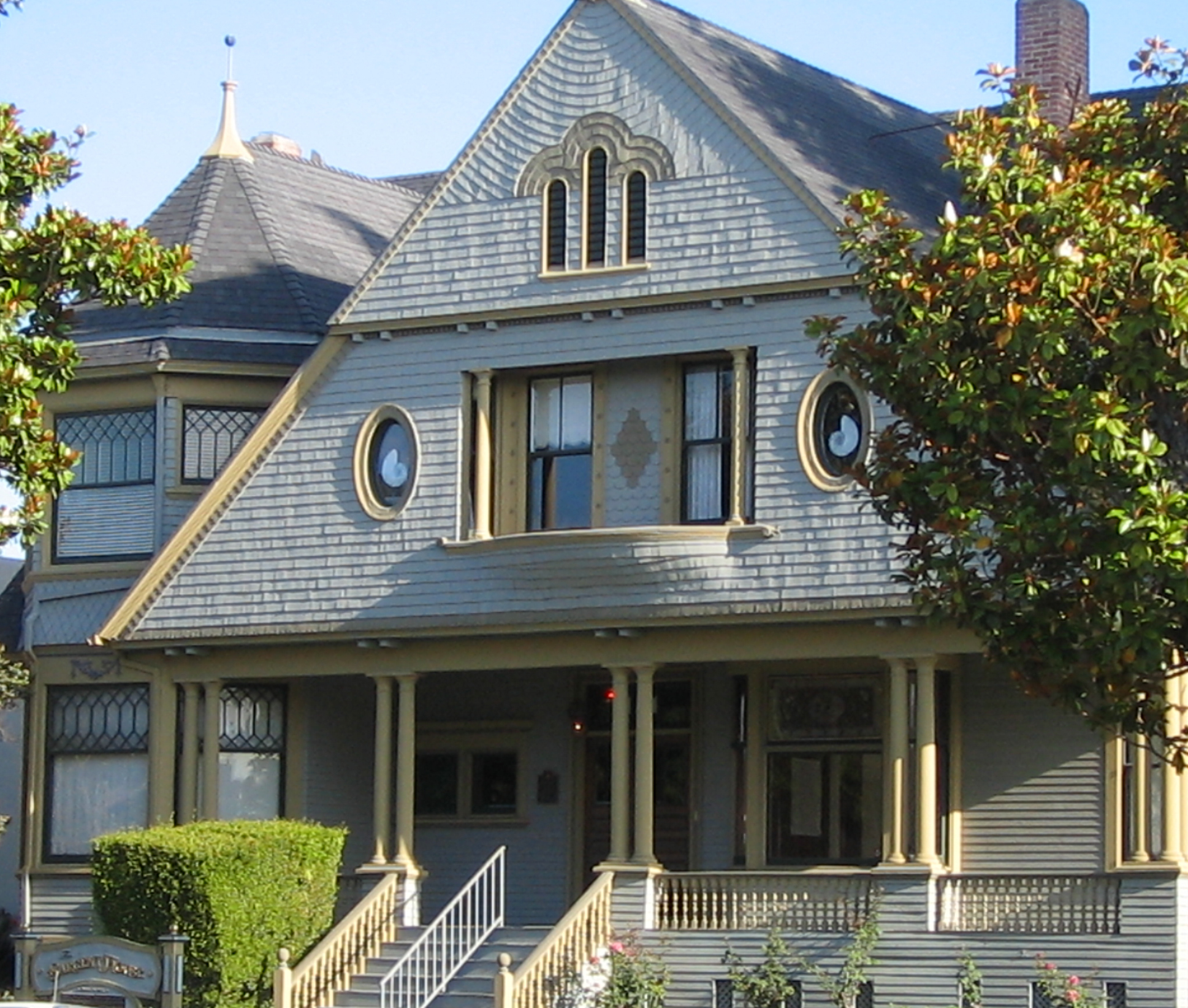 B. V. Sargent House — 154 Central Ave. in Salinas, Monterey County, California. 1897 Victorian house is on the National Register of Historic Places in Monterey County.